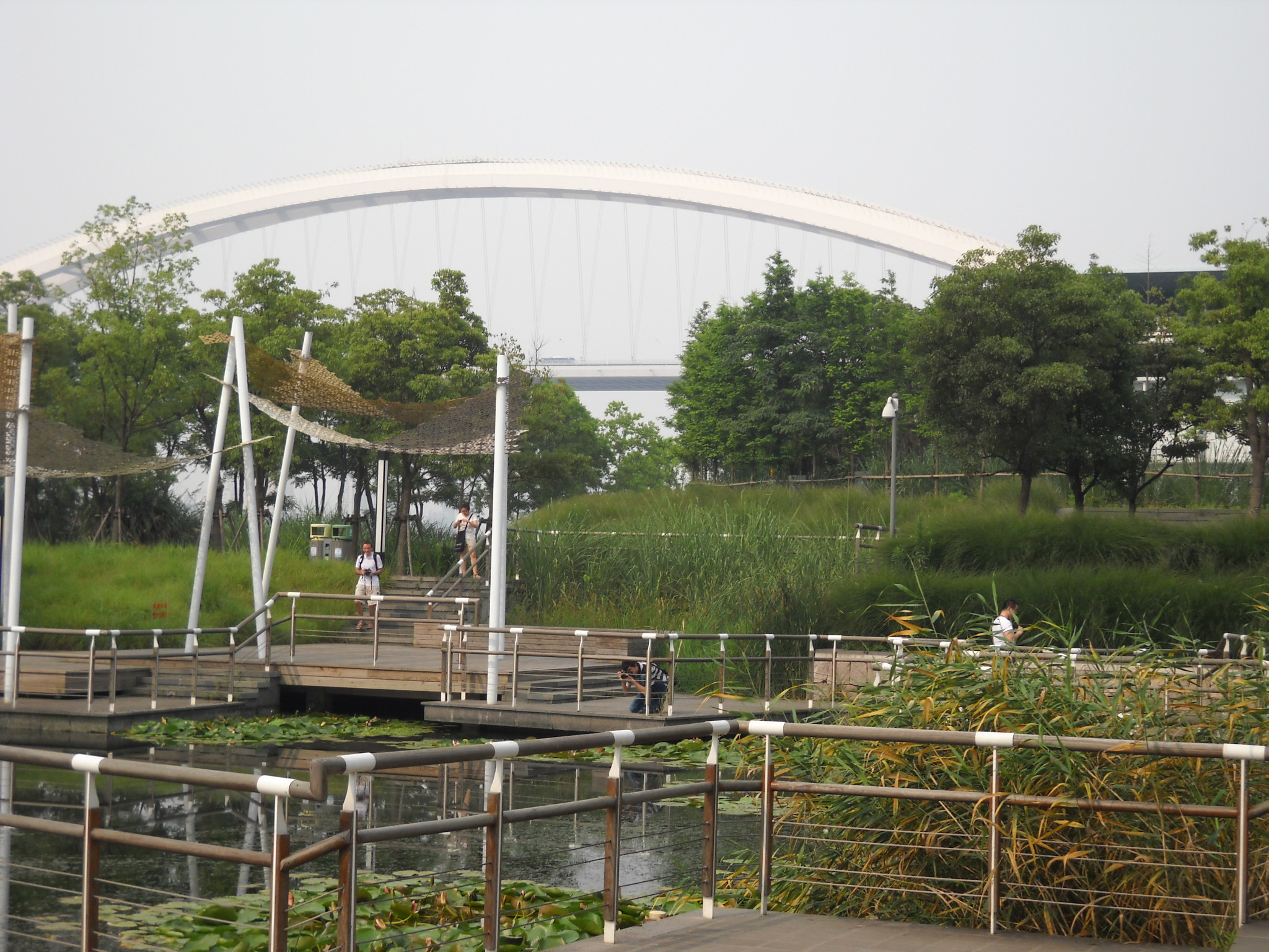 Photowalk in Shanghai Expo Park